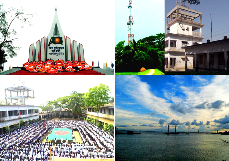 The Smriti Soudho— concrete modernist monument and memorial gardens. educational organization, oldest ferry terminal port area under shahbazpur town. etc First photo is the symbol of the valour and the sacrifice of those killed in the Bangladesh Liberation War of 1971.